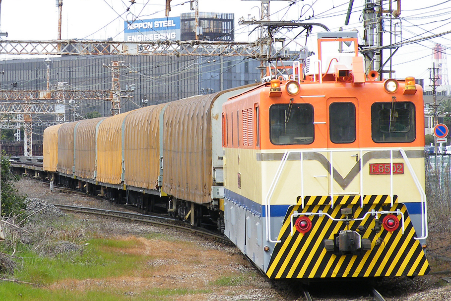 Freight train on the Nippon Steel Kurogane line.